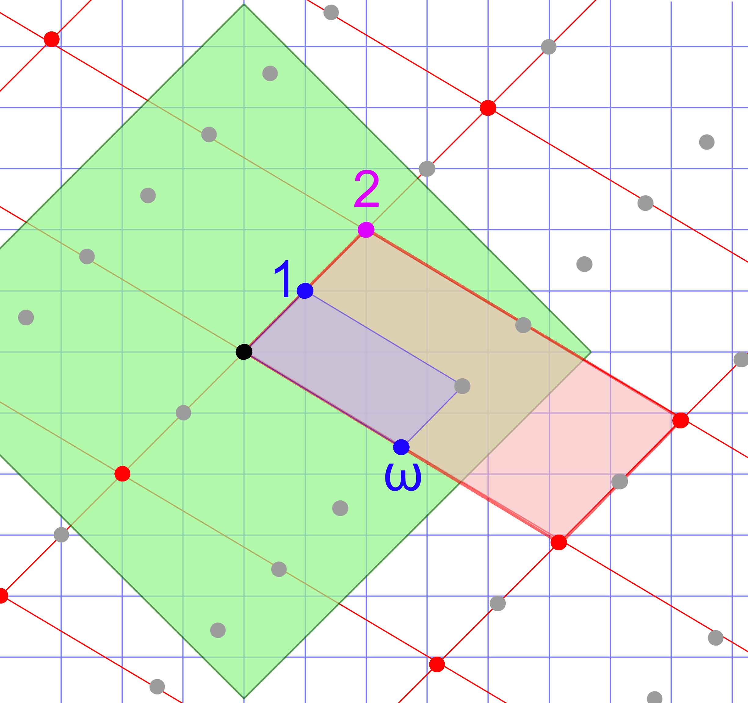 Ideal class group : theorem about the fact that de group is finite. Case illustrated is a totally real number field.